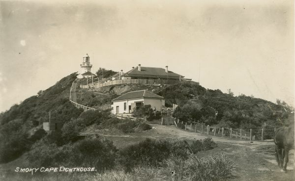 Historic view of Smoky Cape lighthouse